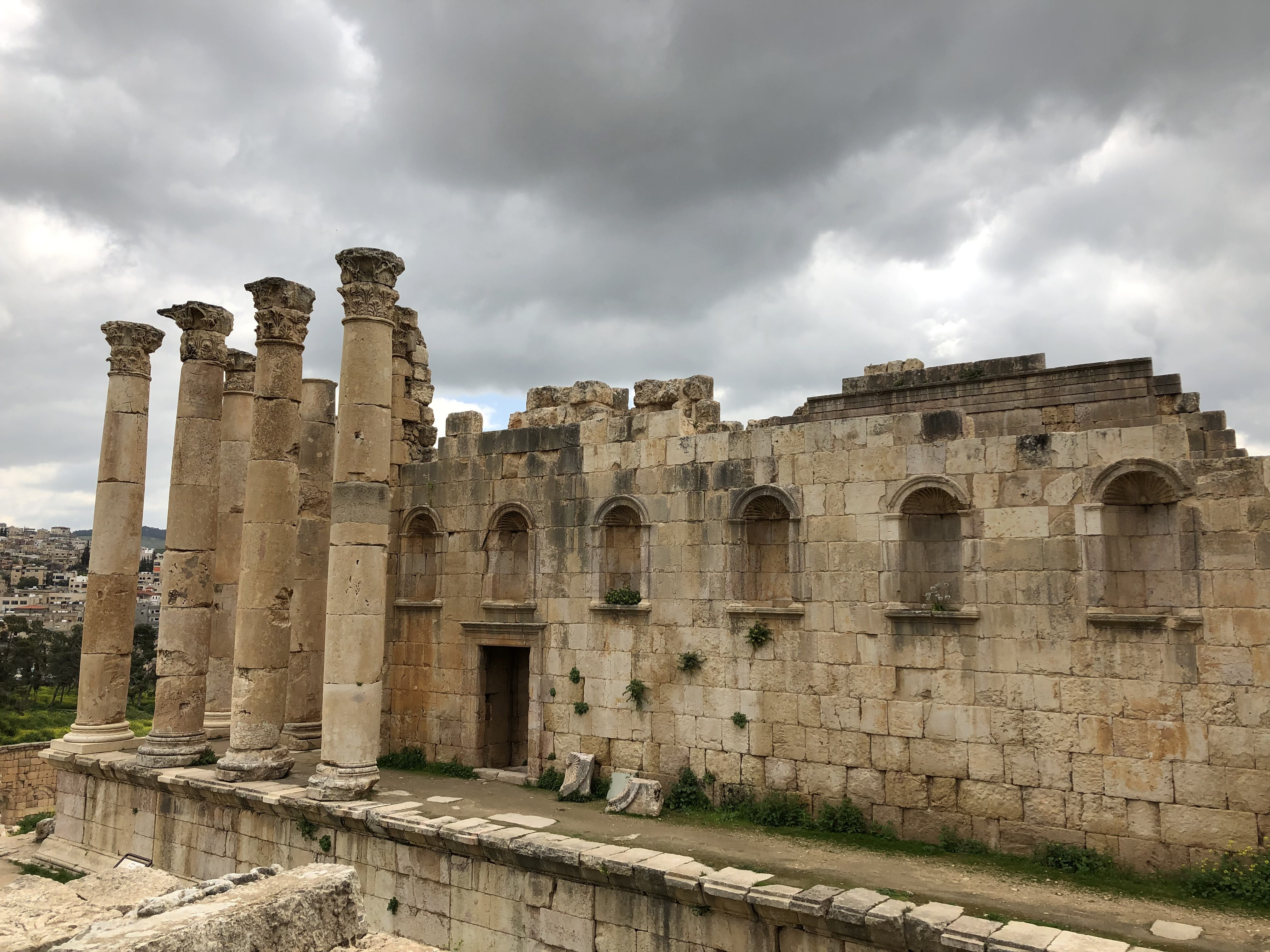 Zeus temple side view